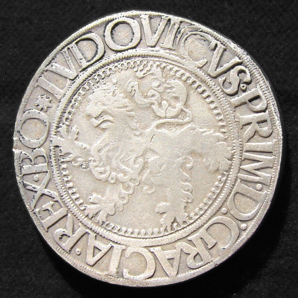 Very fine electrotype copy of a 1525 Joachimsthaler, 39 mm in diameter and 30.09 g in weight. The Bohemian lion is depicted within the inscription Ludovicus prim(us) D(ei) gracia Rex Bo(hemiae)—"Louis I, by the Grace of God, King of Bohemia". Schulten 4383; Davenport 8142.